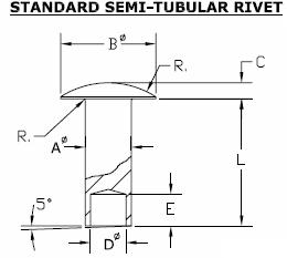 Lineart of a semitubular rivet